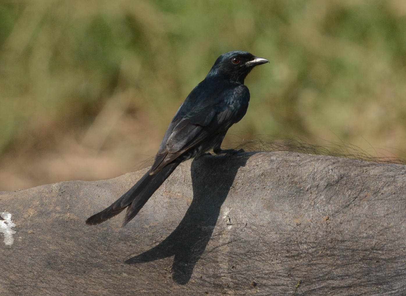 Black Drongo Dicrurus macrocercus by Dr. Raju Kasambe